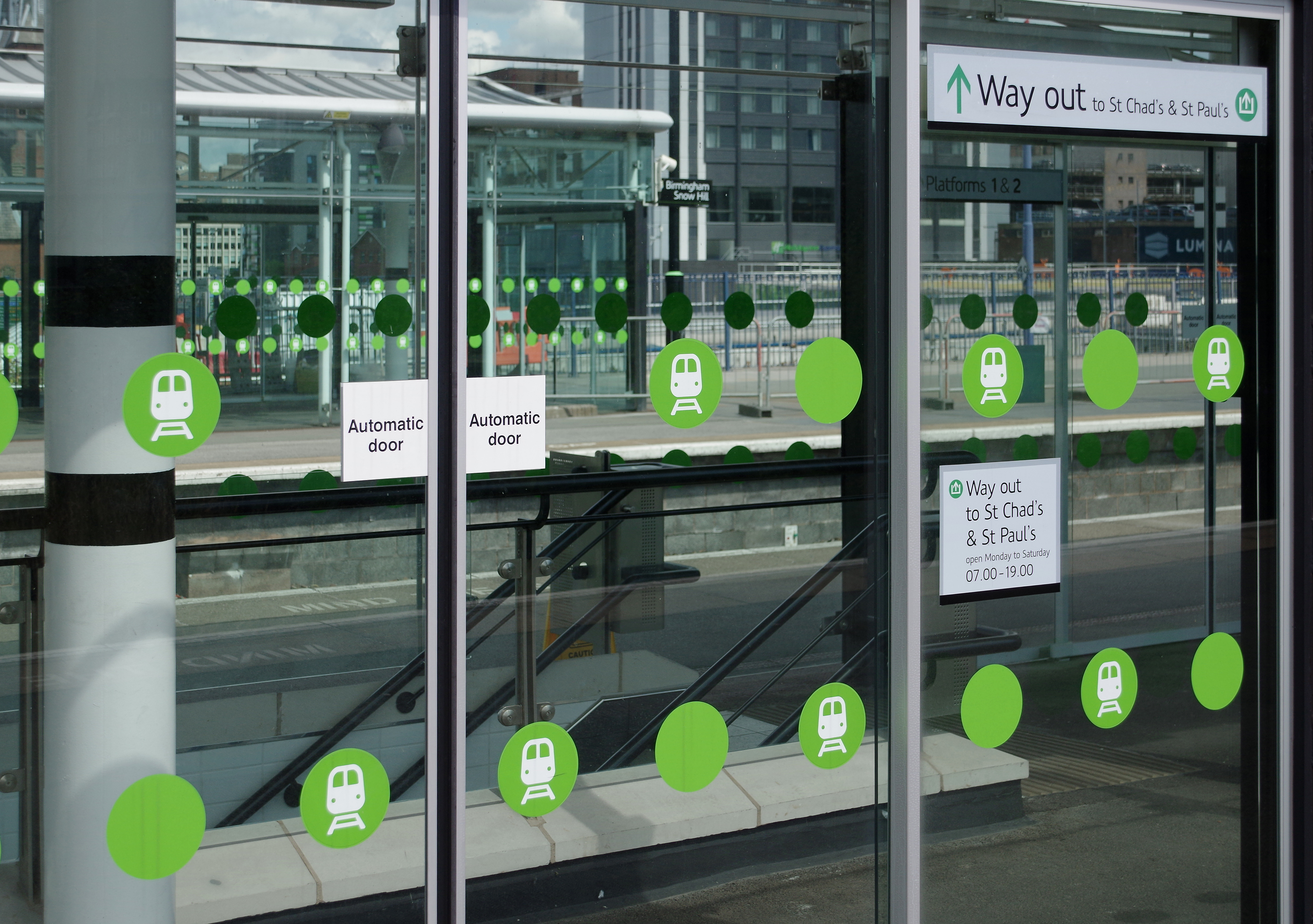 The western exit/waiting room at Birmingham Snow Hill station.